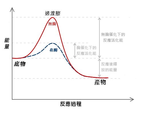 revised from Image:ActivationEnergyInt.svg Activation energy for catalysed and uncatalysed reactions. International version.